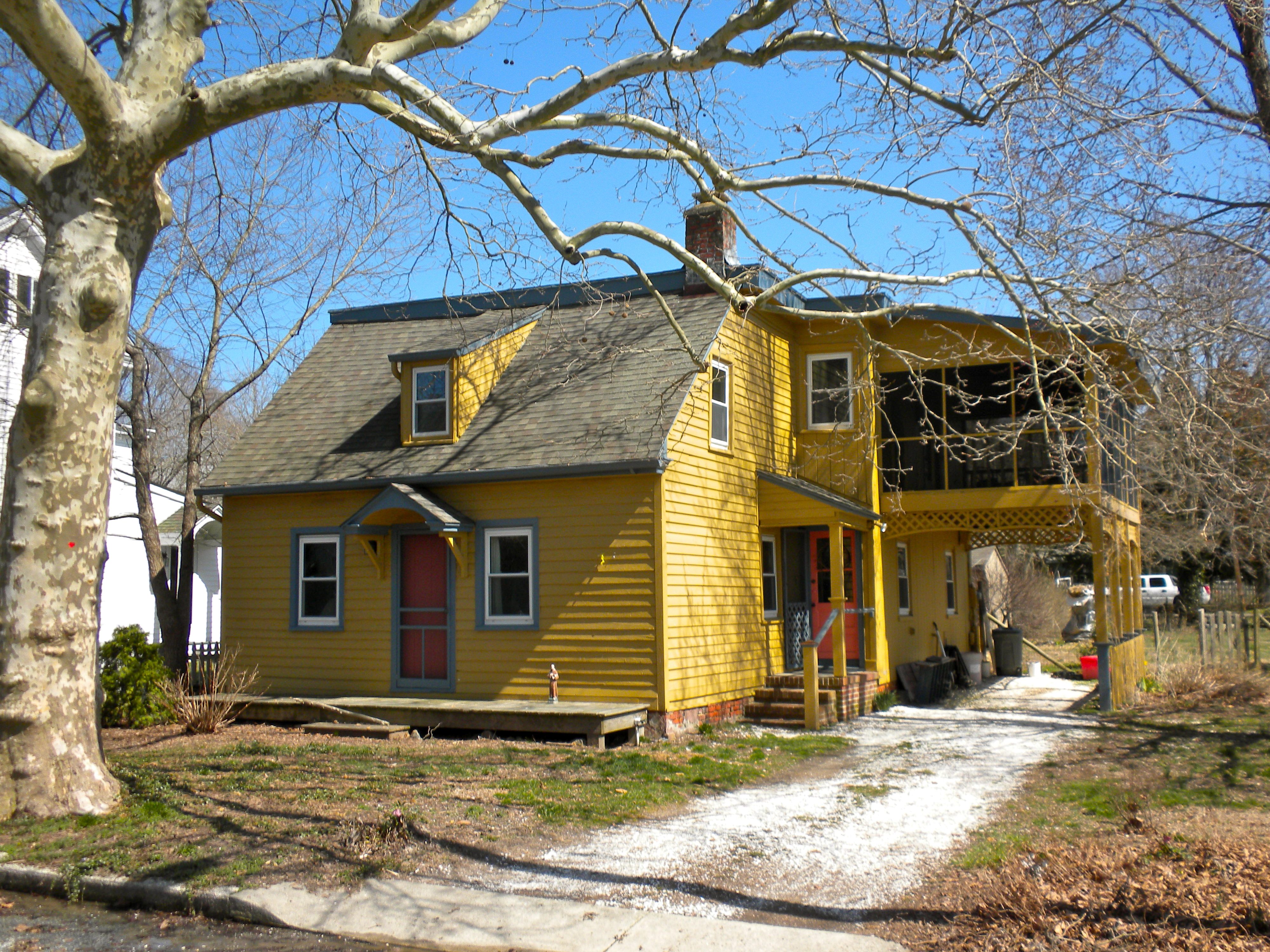 Caesar Hoskins Log Cabin, known locally as the Swedish Cabin, on the NRHP since September 10, 1987. At Jct. of South and Second Sts. in Mauricetown, New Jersey. Even though this doesn't look like a log cabin, it is definitely the place, same address, same coordinates, and local residents pointed it out. The siding and additions obviously added later. BTW, Mauricetown is full of much more impressive (on the surface) buildings.